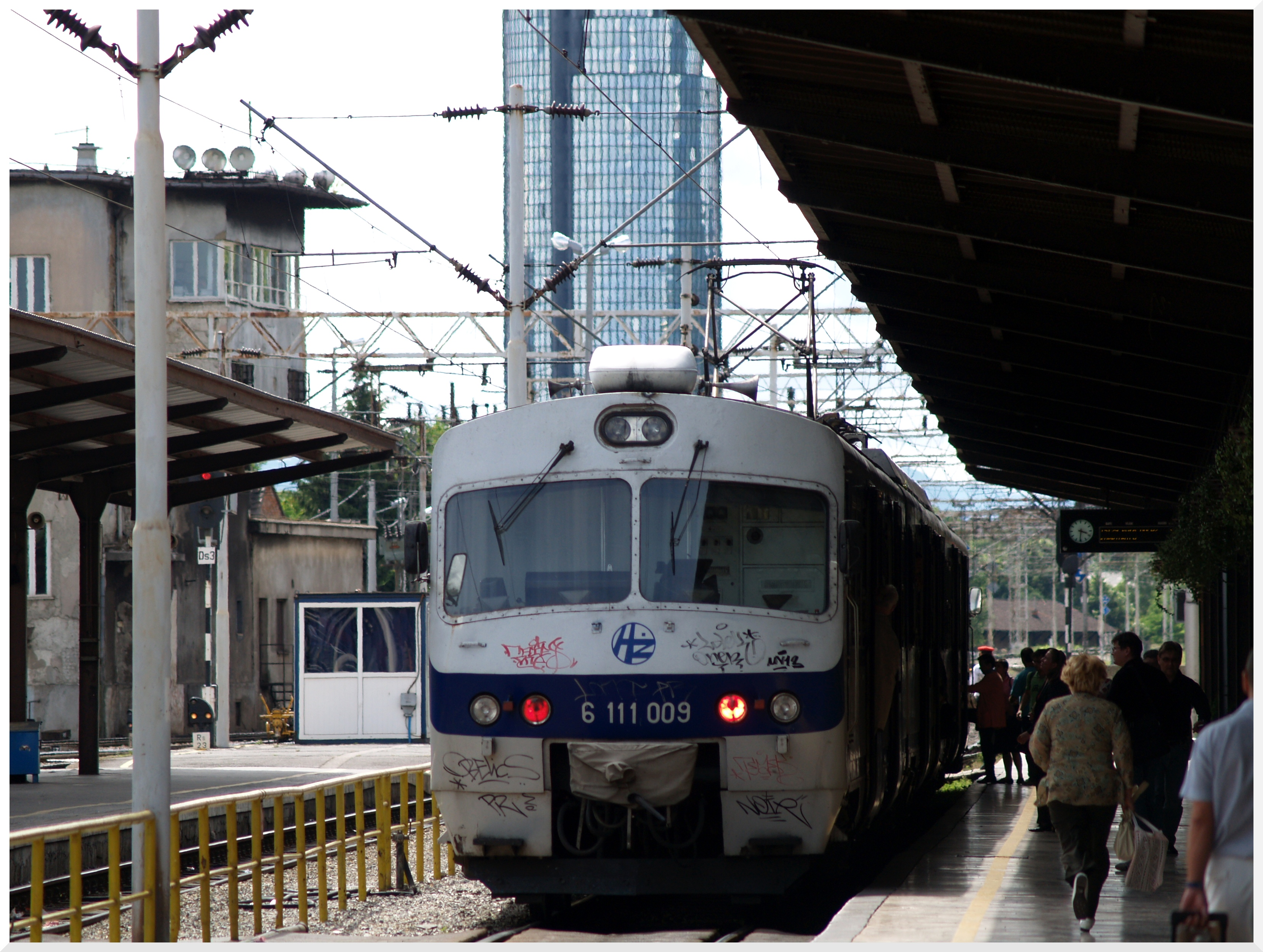 HŽ 6111 series EMU in Zagreb, Croatia